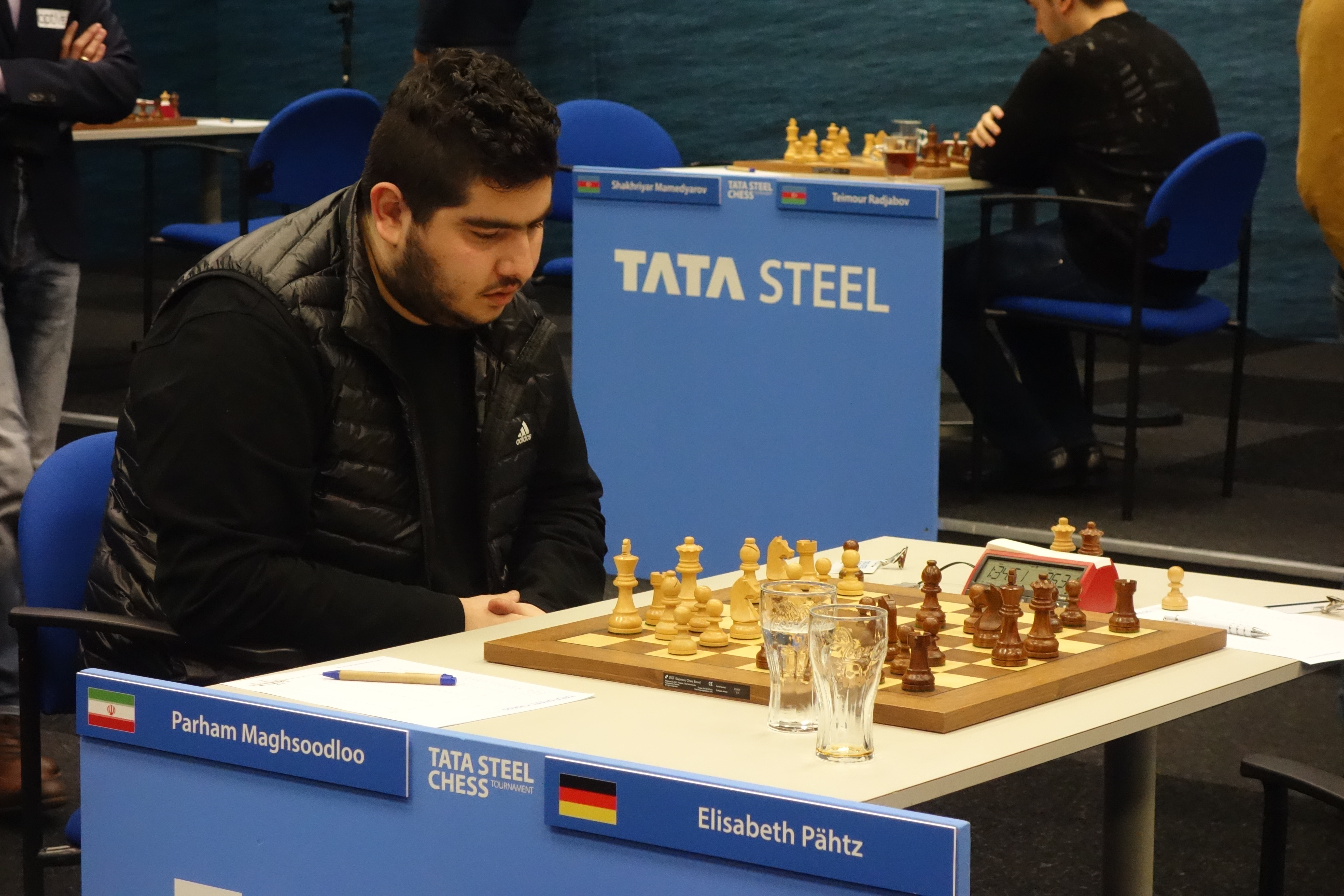 Tata Steel Chess Tournament 2019, Wijk aan Zee (the Netherlands), 13 Jan. 2019